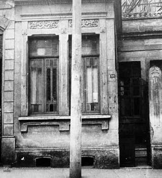 Casa dos Ferreira de Camargo, 23 de Novembro de 1948